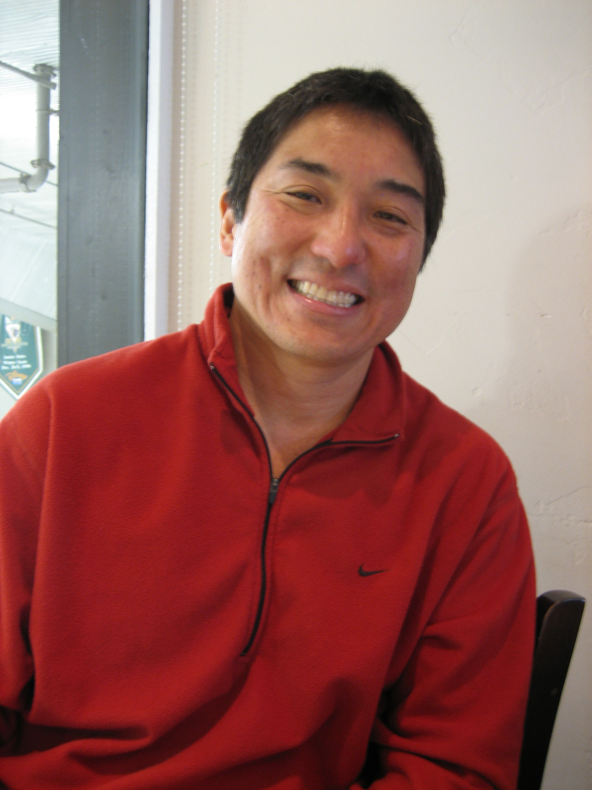 Guy Kawasaki, American venture capitalist and one of the original Apple Computer employees responsible for marketing of the Macintosh in 1984.